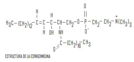 Esfingomielina